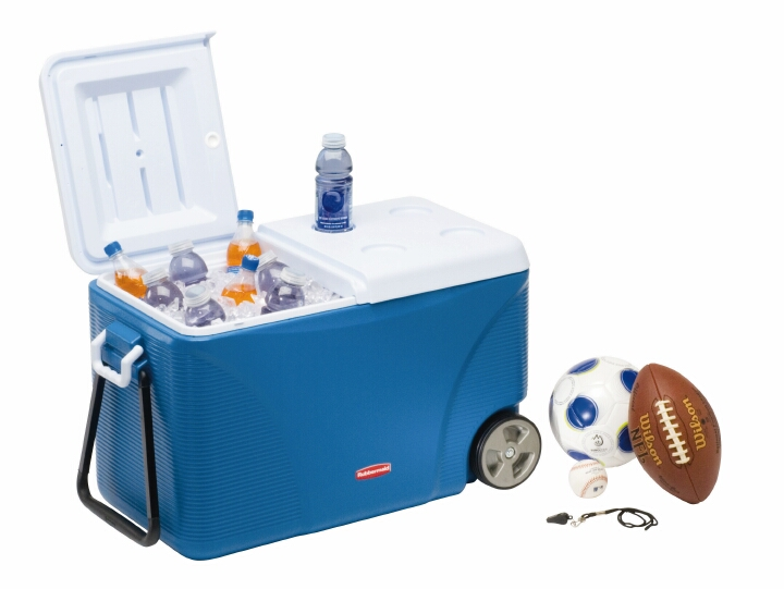 Take it to a sporting event Learn more at